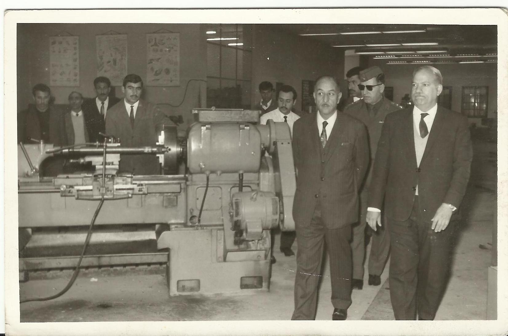 Jassim Al-Hayani and Ahmad Hasan al-Bakr in the University of Technology, Baghdad, Iraq